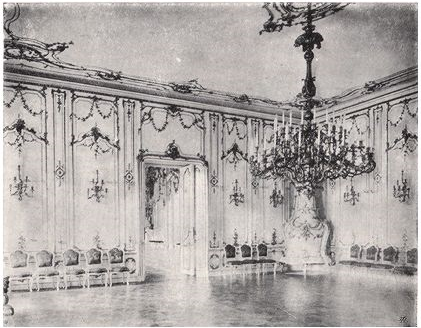 White Antechamber in the Royal Castle of Budapest.